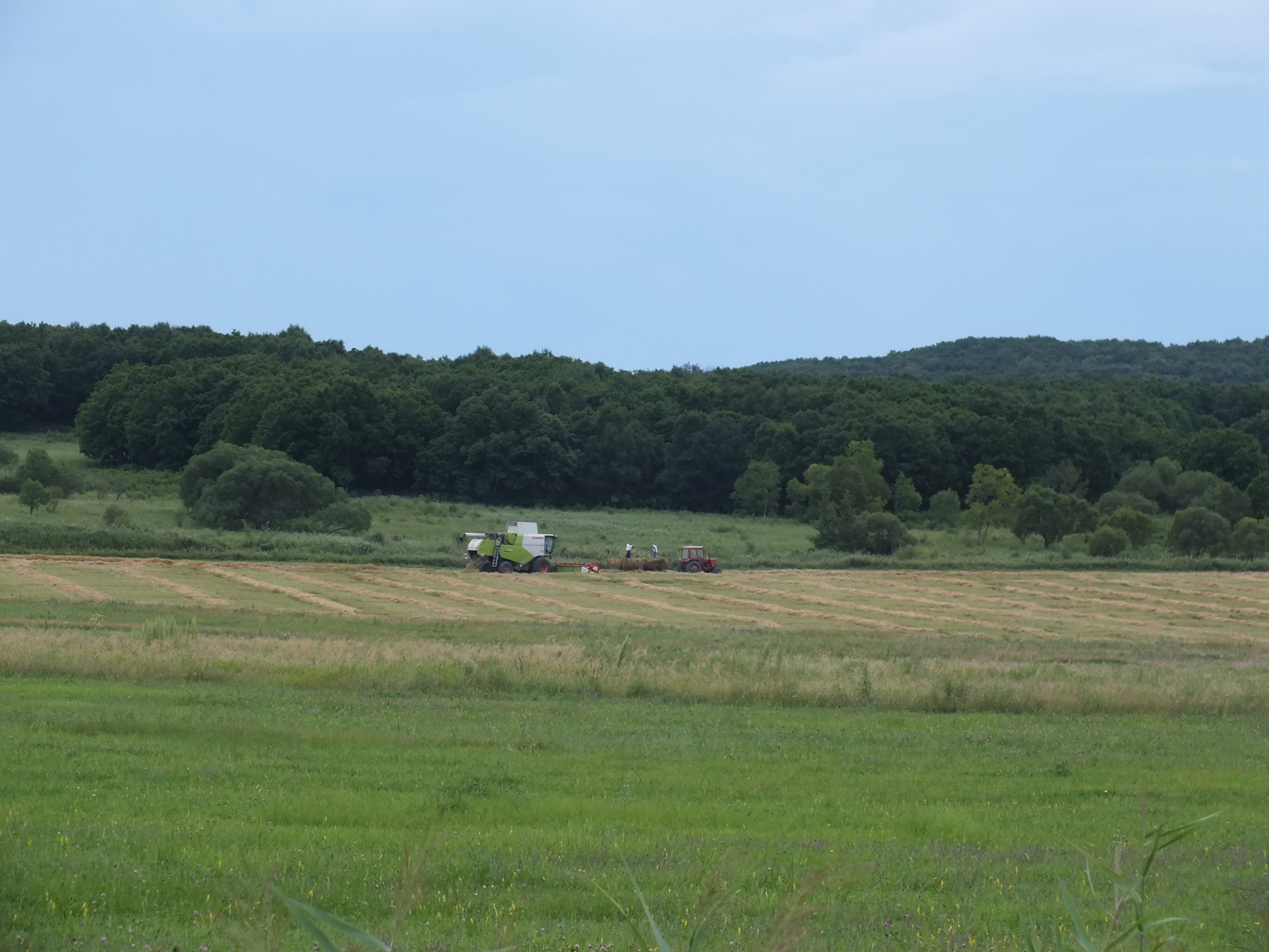 Linevichi Primorskiy kray